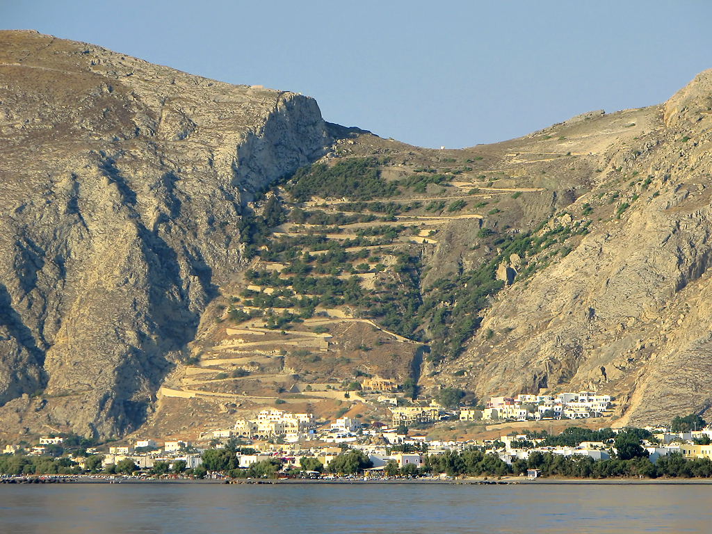 Sea view of Sellada in Santorini, Greece. Sellada is a mountain pass on Santorini island.